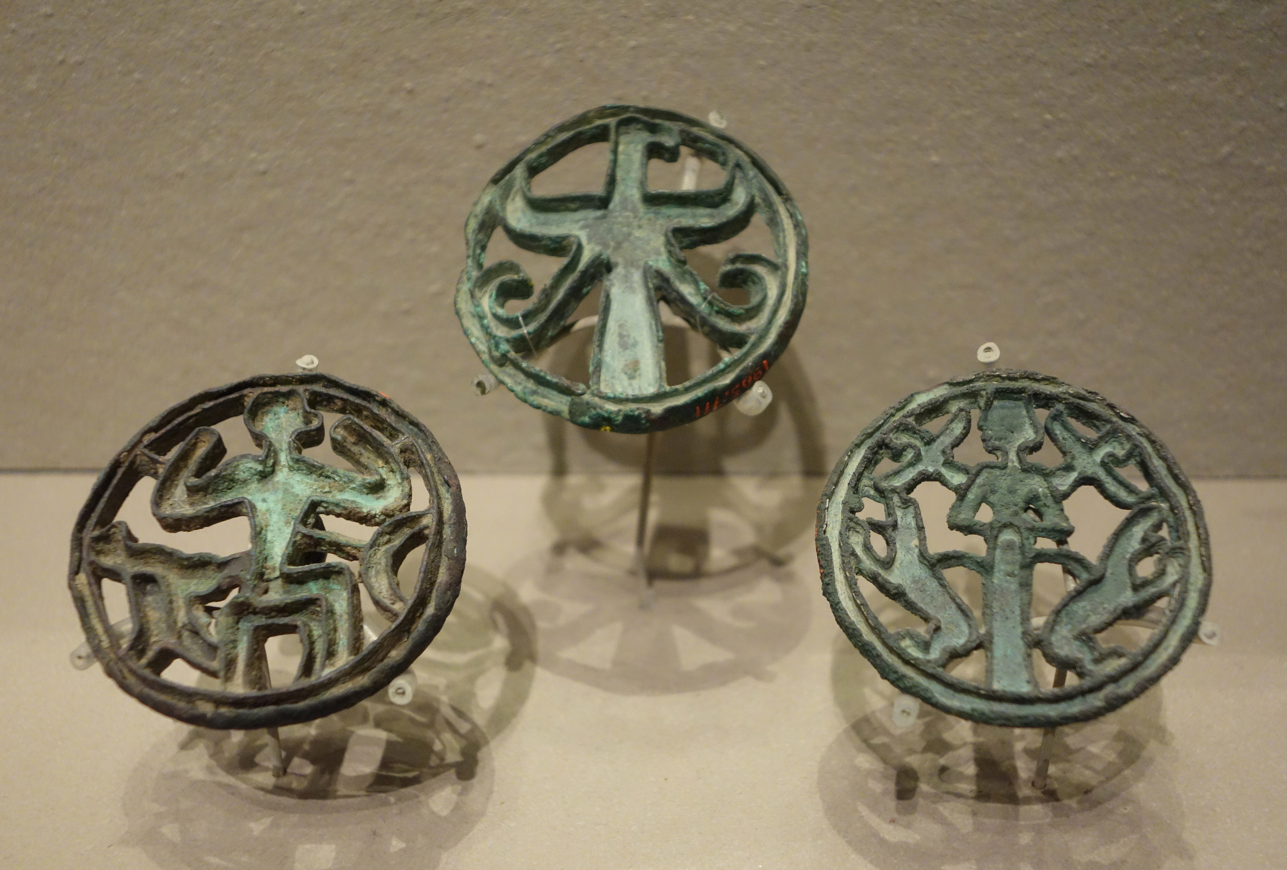 Compartmented seals of eagle, monkey, and goddess, Turkmenistan or northeast Iran, early Bronze Age, c. 2200-1800 BC, bronze - Museum of Fine Arts, Boston, Massachusetts, USA. This artwork is in the public domain because the artist died more than 70 years ago.